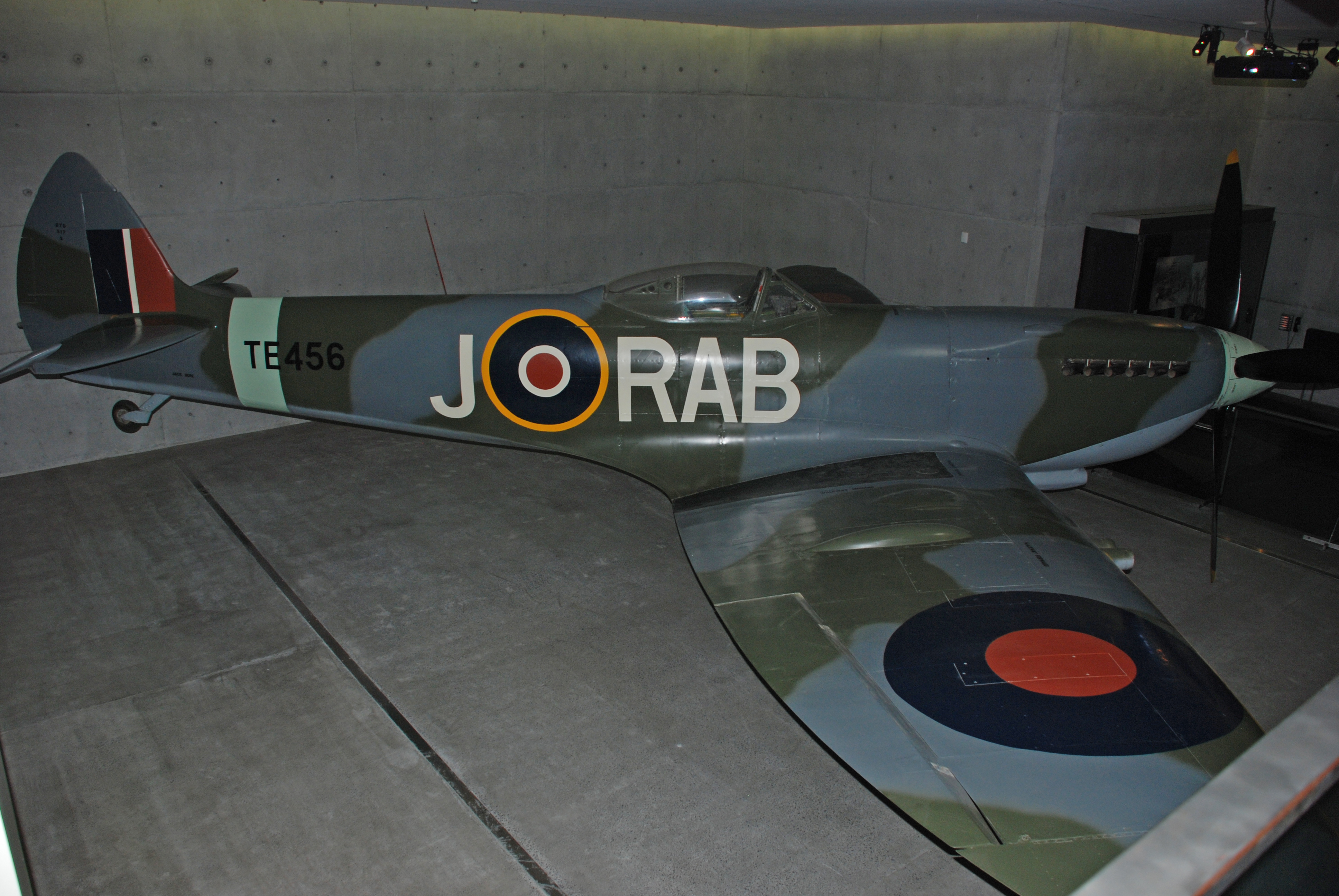 Supermarine Spitfire XVI, aircraft was gifted to New Zealand by the RAF as representative of the many spitfires flown by New Zealand pilots in the RAF.